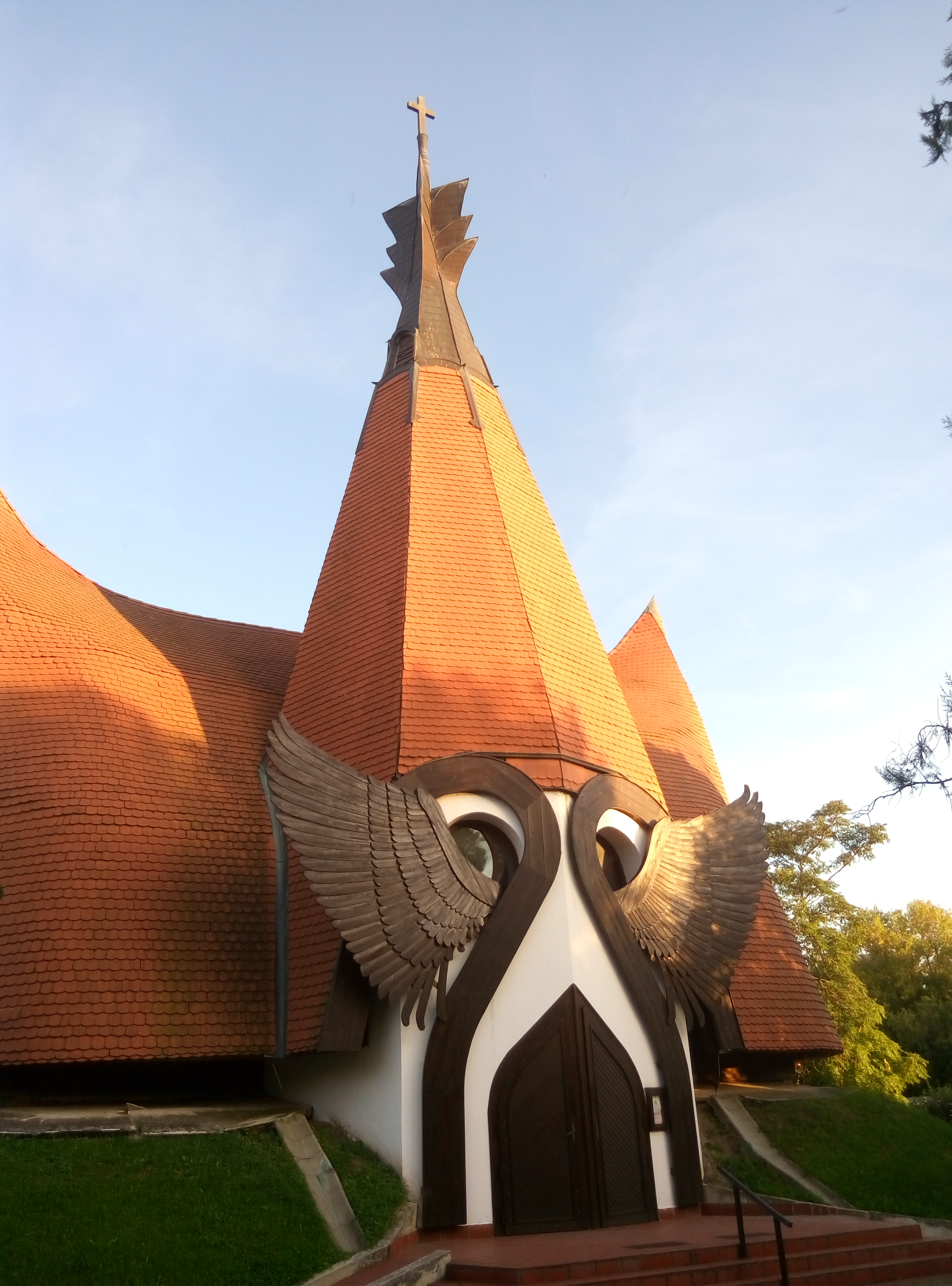 Lutheran church of Siófok, Hungary.